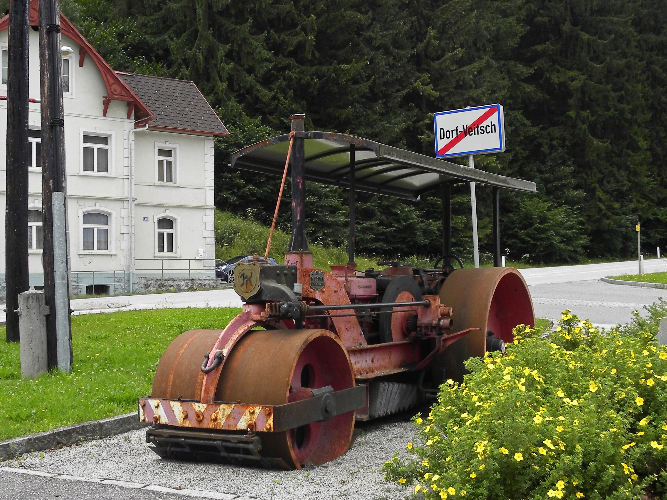 Road roller Kemna Breslau Nr. 2305 in the village Veitsch